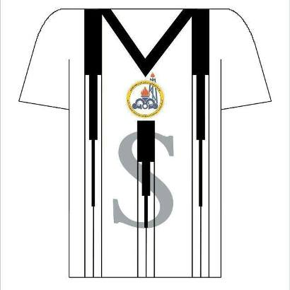 away colour naft masjedsoleiman